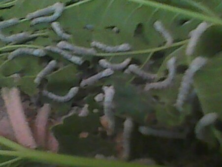 silkworms are fed mulberry leaves